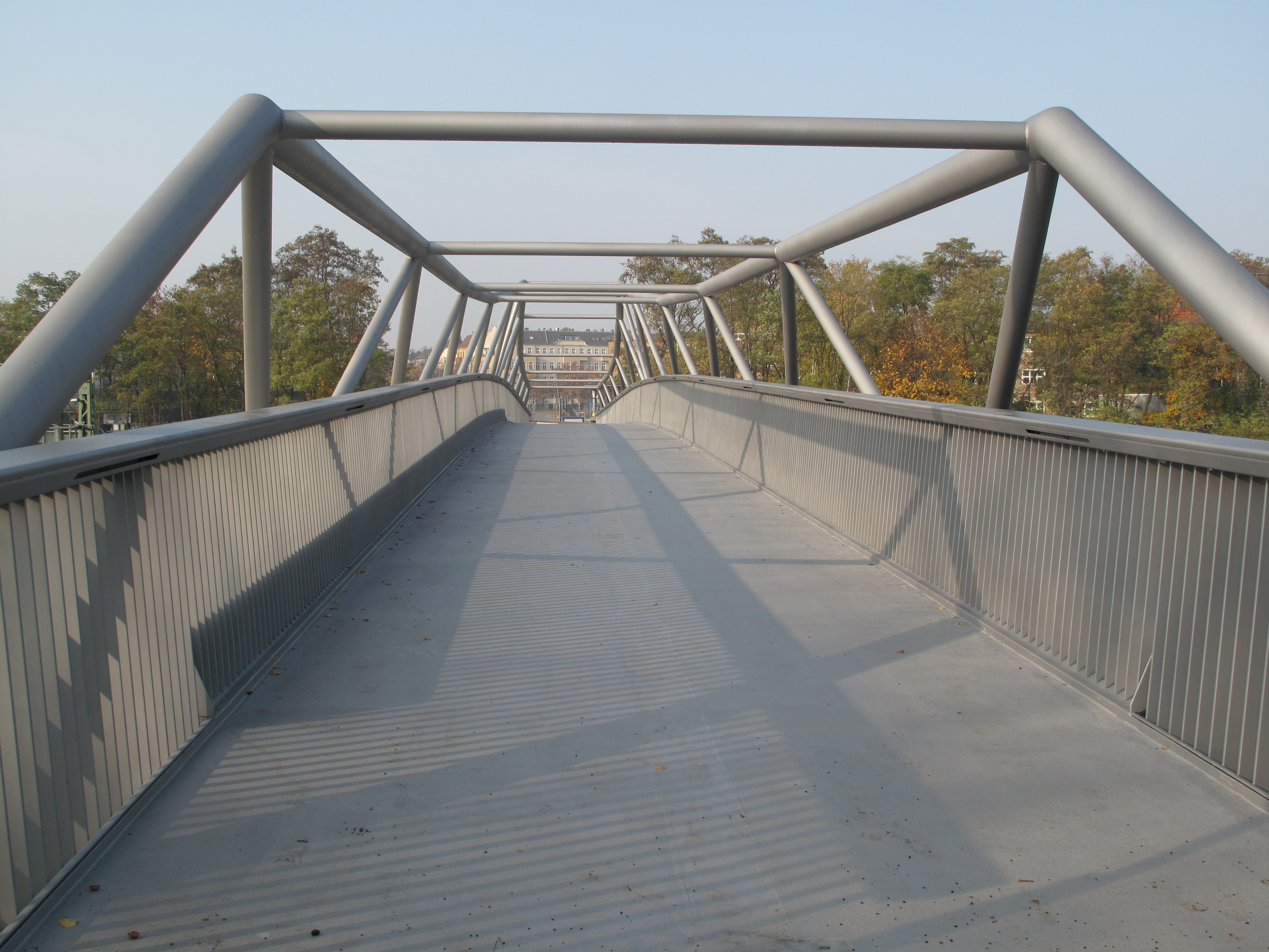 Alfred-Lion-Steg, here in construction in November 2011. The Alfred-Lion-Steg is a pedestrian and cyclists' bridge in Berlins Borough Tempelhof-Schöneberg, Germany. The 93,30 meters long dual-span construction of steel tube was opened in November 2012. It leads the Hertha-Block-Promenade of the also new built Ost-West-Grünzug (german for: east-west-greenbelt) in the north of the railway station Berlin Südkreuz over the lines of the Dresden and Anhalt Railway and connects the district Schöneberg from the Rote Insel (literally, Red Island) with the district Tempelhof at the General-Pape-Straße. The bridge is named after Alfred Lion, co-founder of the jazz record label Blue Note.